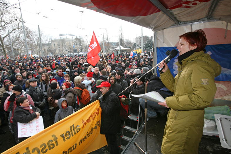 Katja Kipping speaking at the 2010 anti-fascist blockade in Dresden, Germany